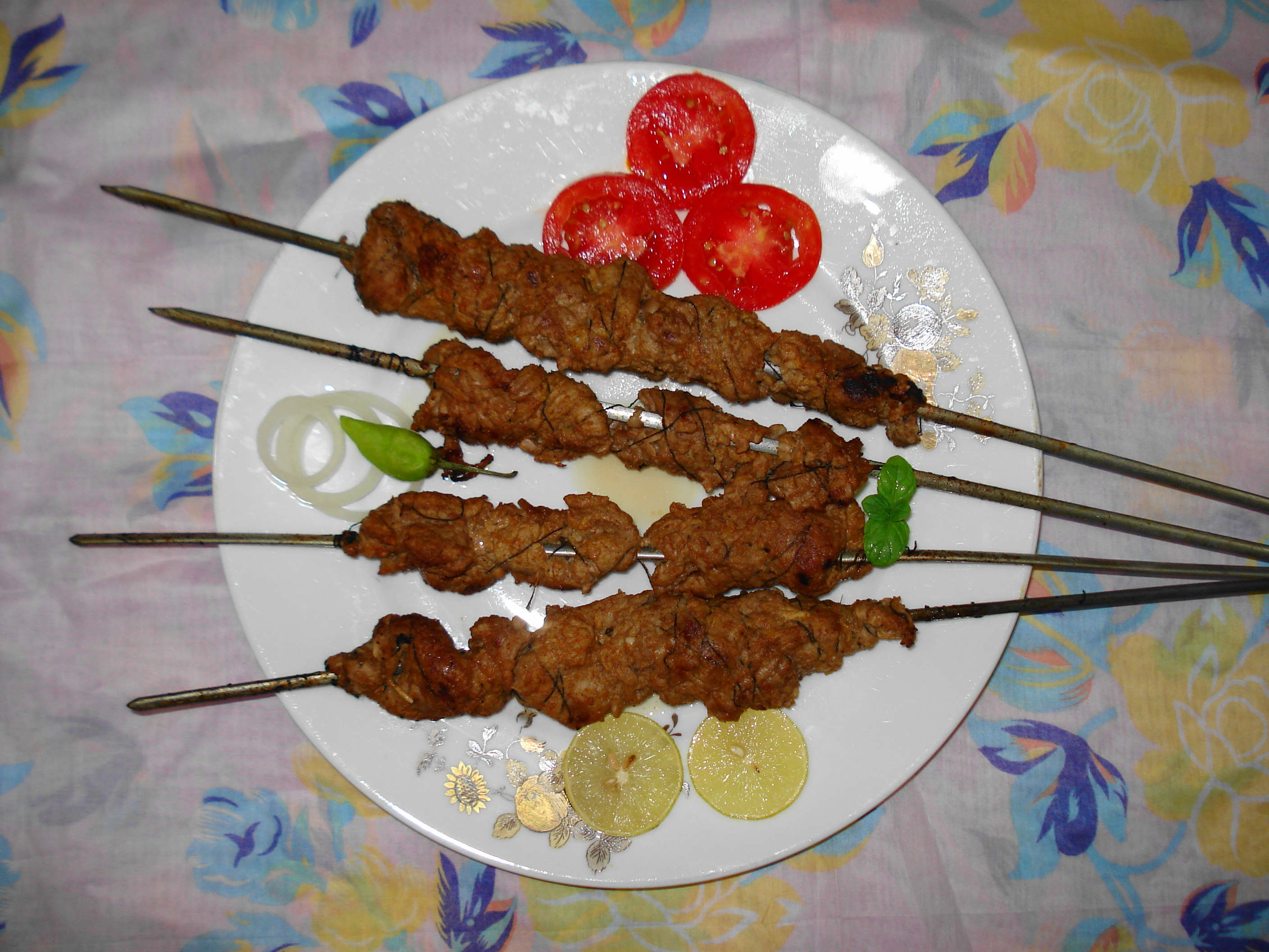 Bihari Kabab